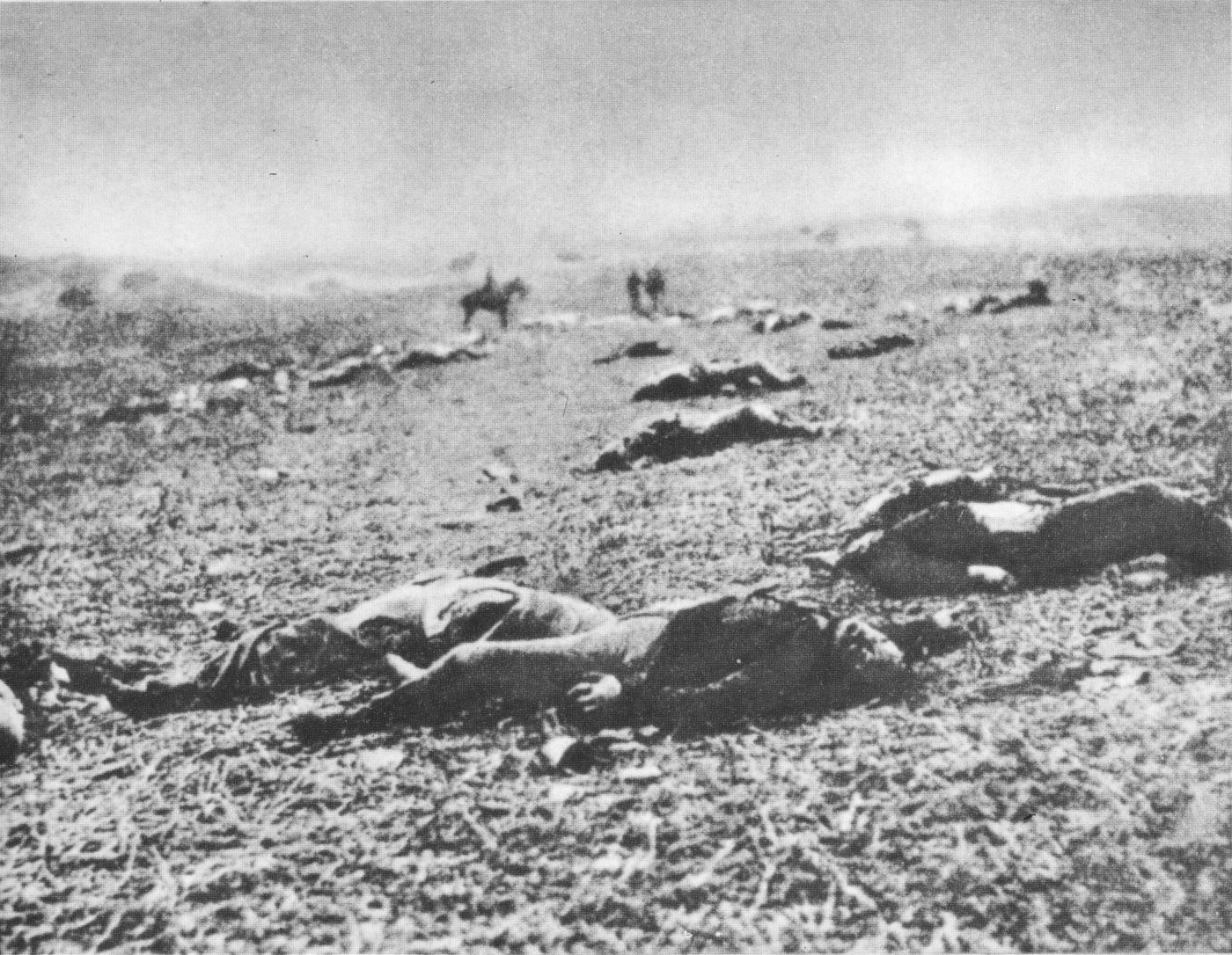 Incidents of the war. A harvest of death, Gettysburg, PA. Dead Federal soldiers on battlefield. Negative by Timothy H. O'Sullivan. Positive by Alexander Gardner.